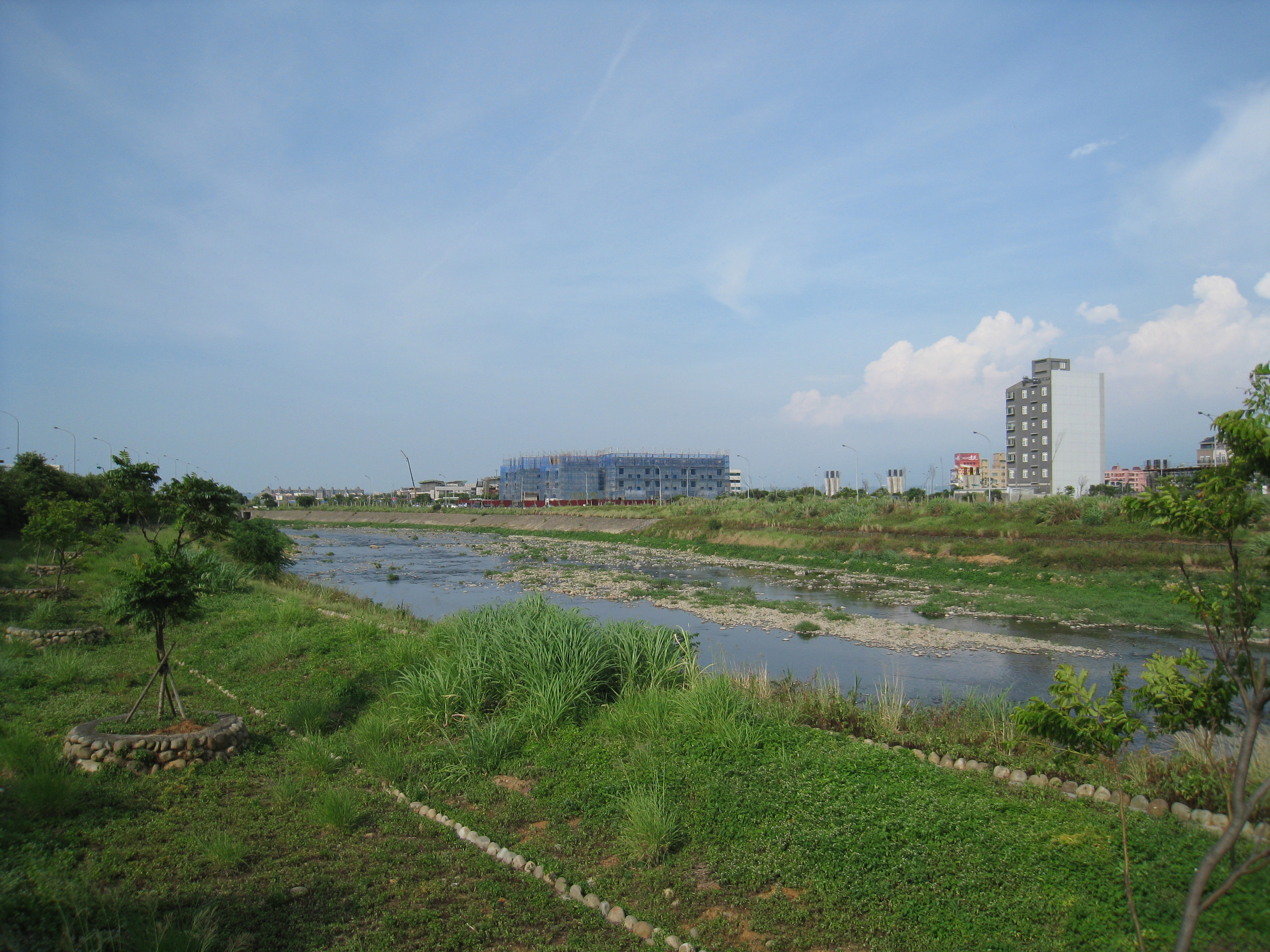 Taoyuan Lao-Jie Creek, Taiwan.